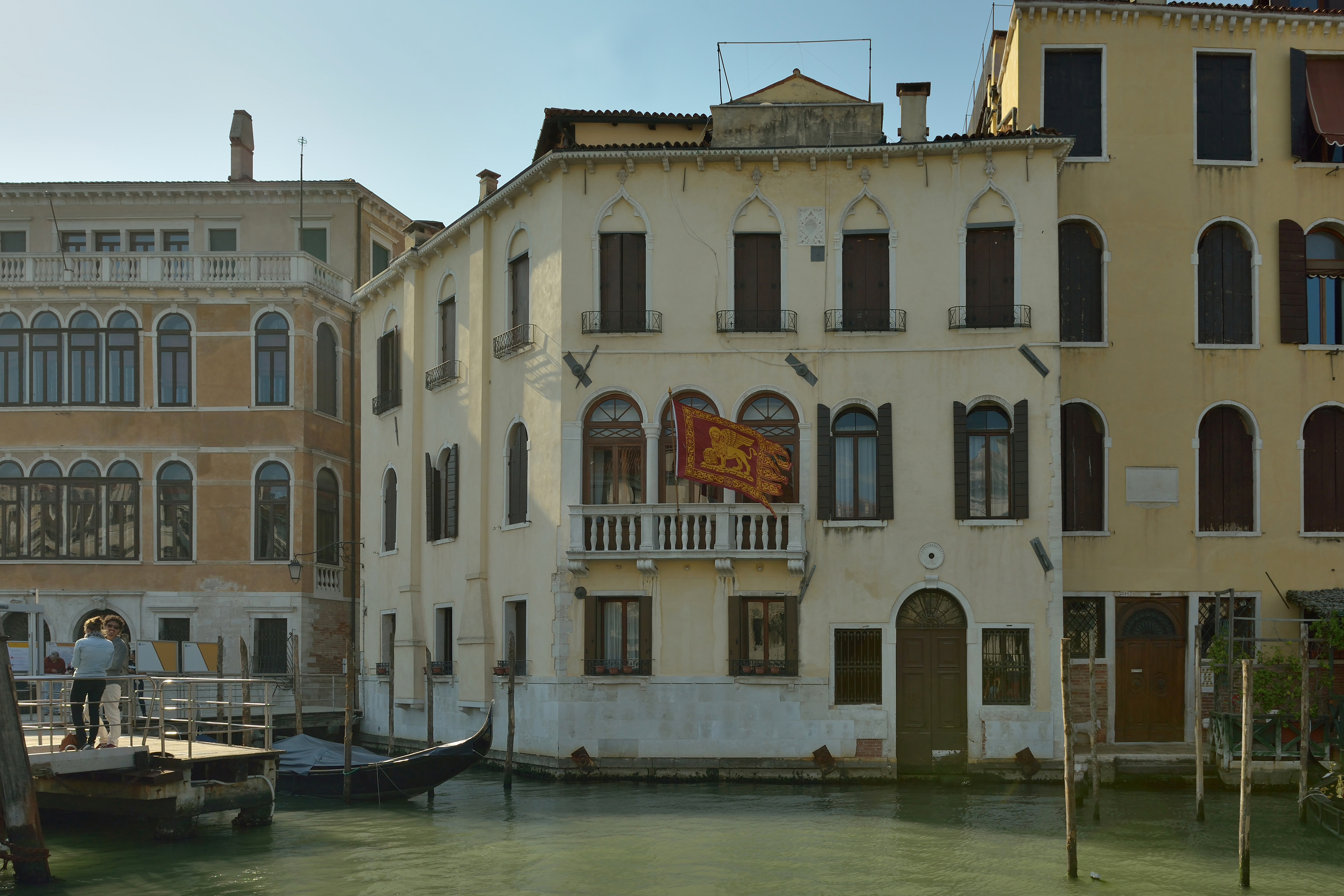 Palazzo Dolfin on the Canal Grande in Venice.